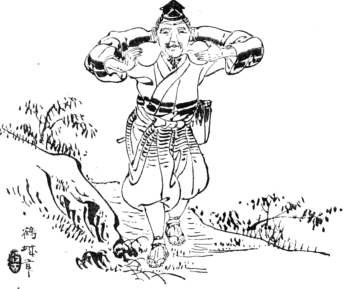 Image from The Japanese Fairy Book